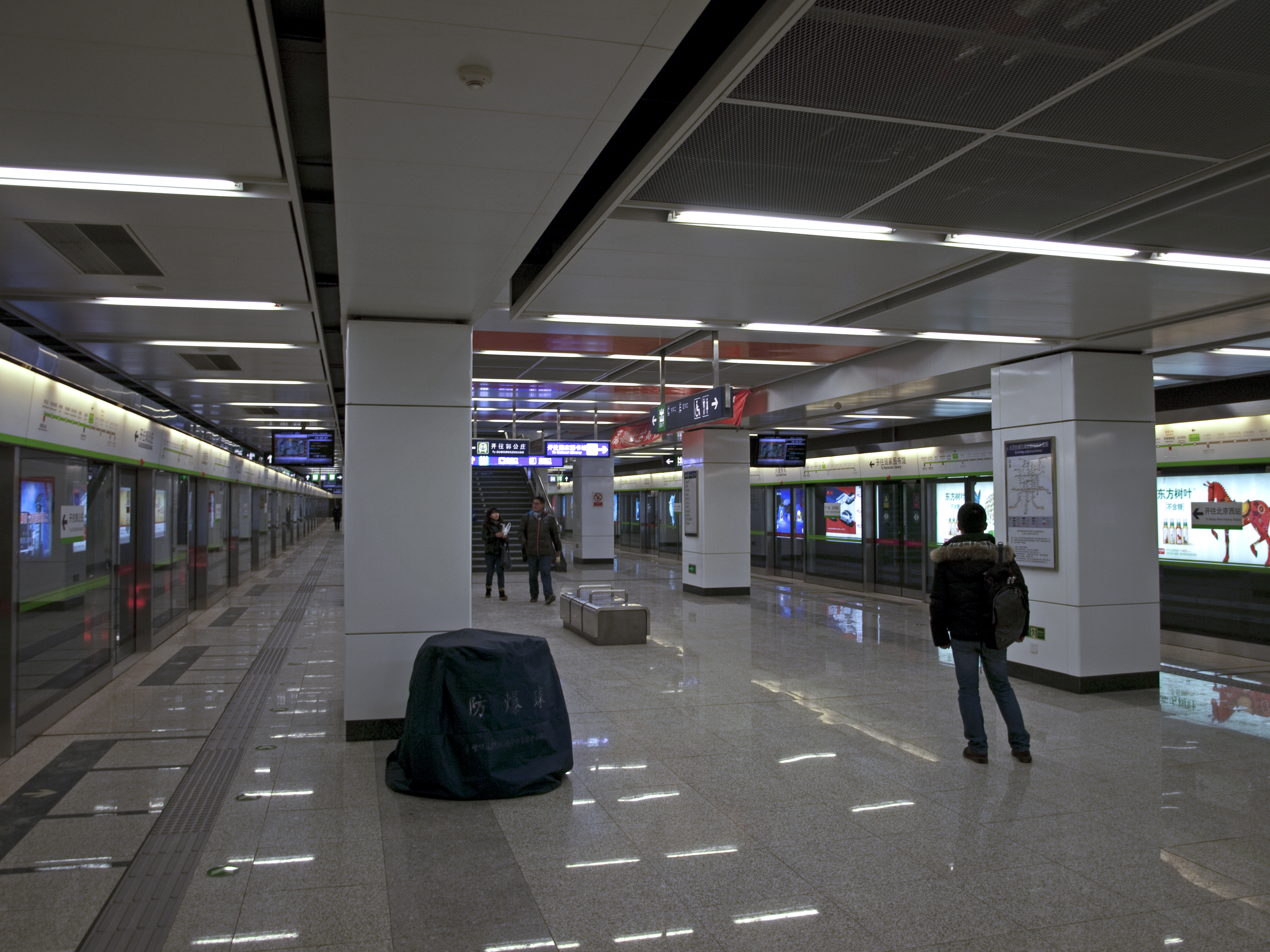 Liuliqiao East station, Beijing Subway